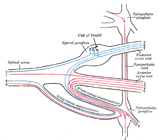 Scheme showing structure of a typical spinal nerve. 1. Somatic efferent. 2. Somatic afferent. 3,4,5. Sympathetic efferent. 6,7. Sympathetic afferent.